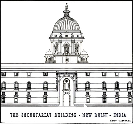 A drawing of the Secretariat Building, New Delhi, India.